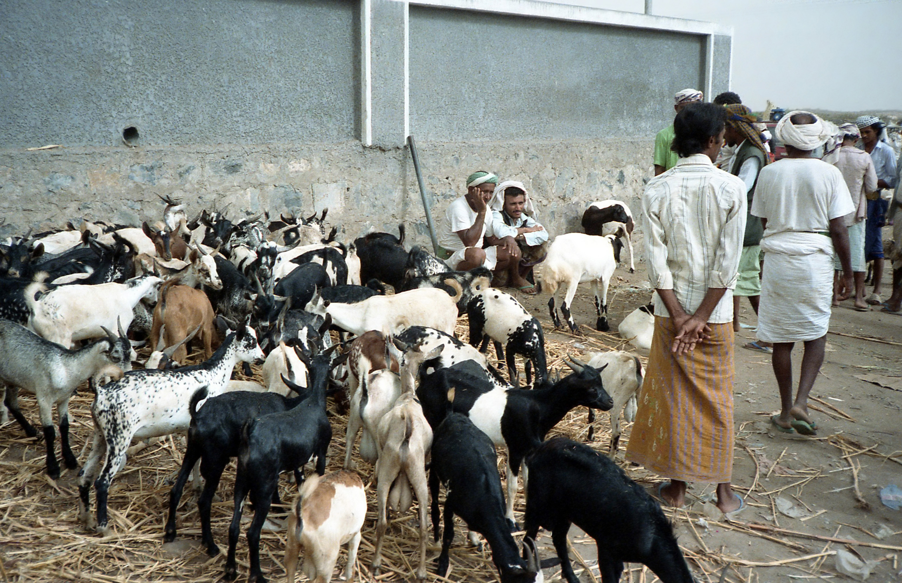 Goats at Bayt al-Faqih market, Yemen